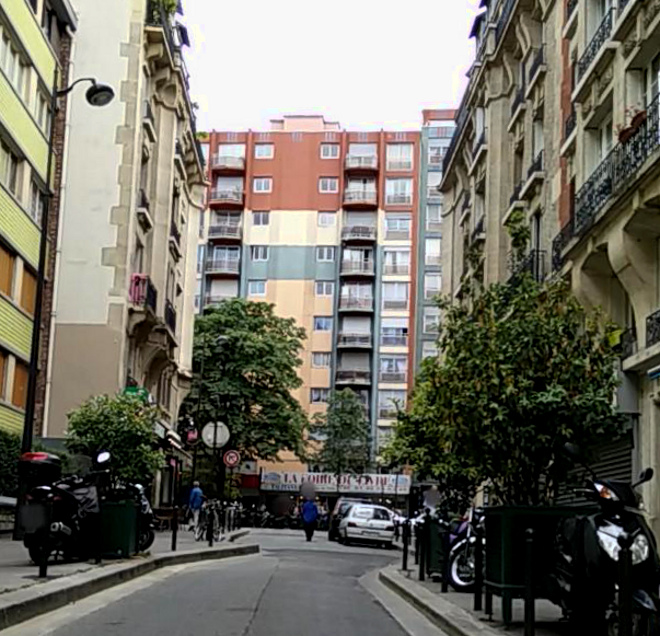 France, Paris : 116 rue Petit from rue Eugène Jumin.